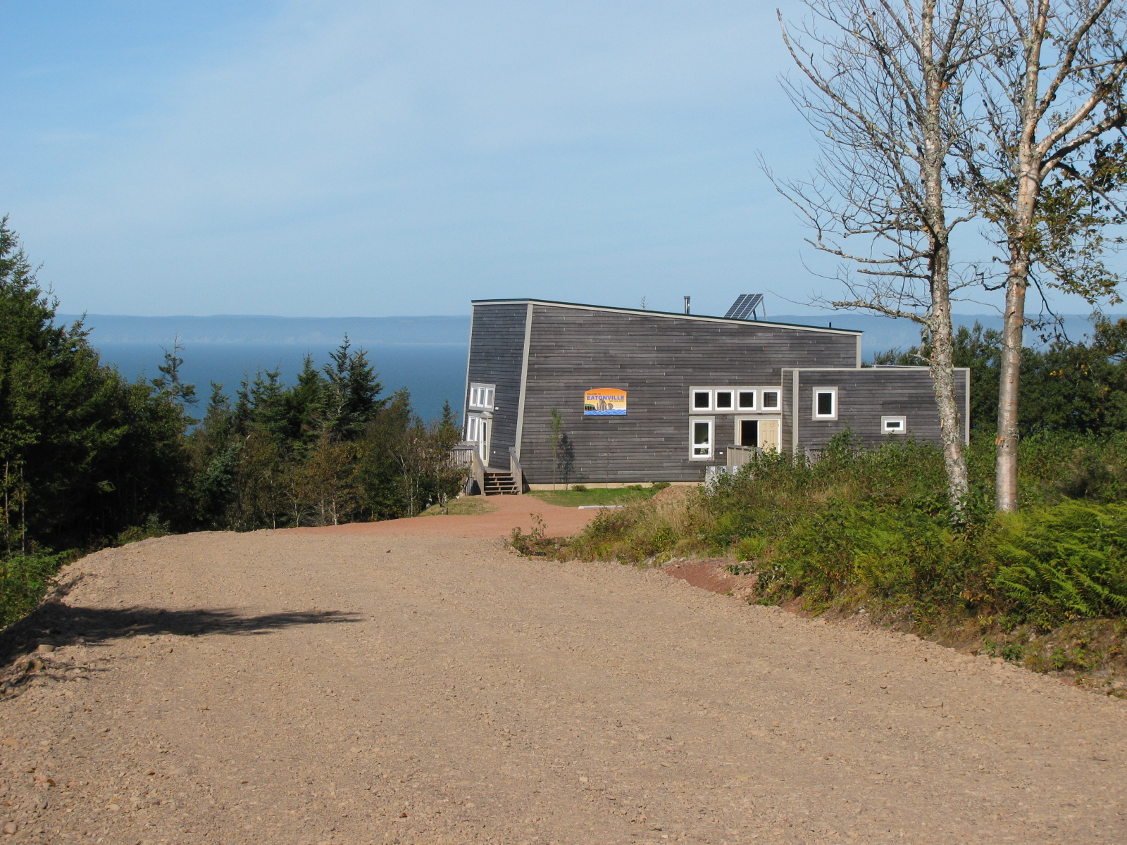 The Eatonville Interpretive Centre in Cape Chignecto Provincial Park, NS, Canada